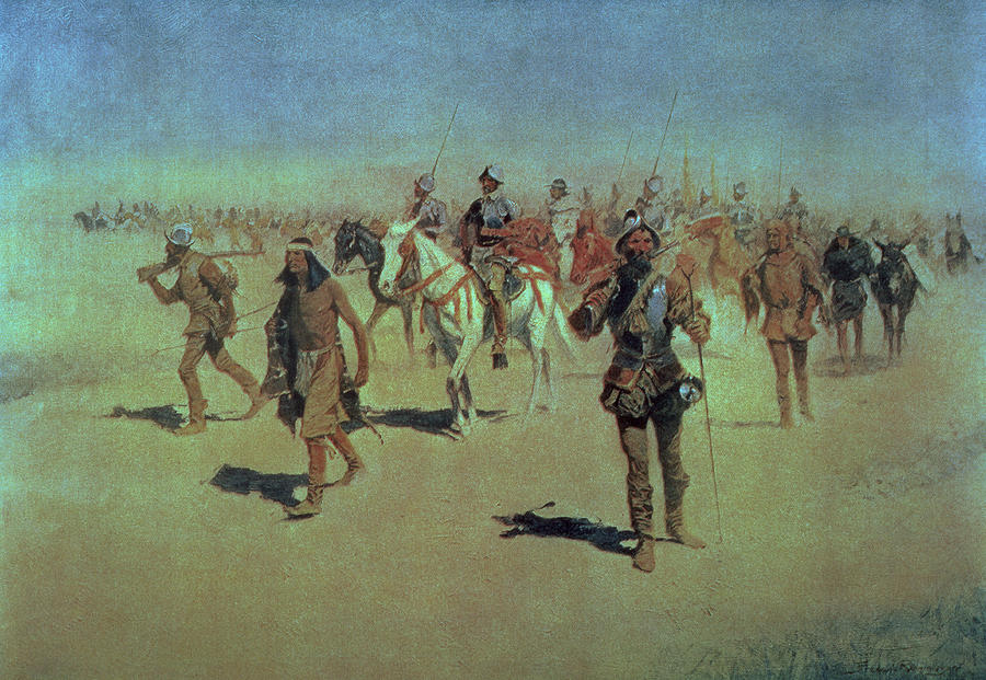 "Coronado sets out to the north" — oil painting by Frederic Remington. Spanish Francisco Vázquez de Coronado Expedition (1540 - 1542), passing through Colonial New Mexico, to the Great Plains.